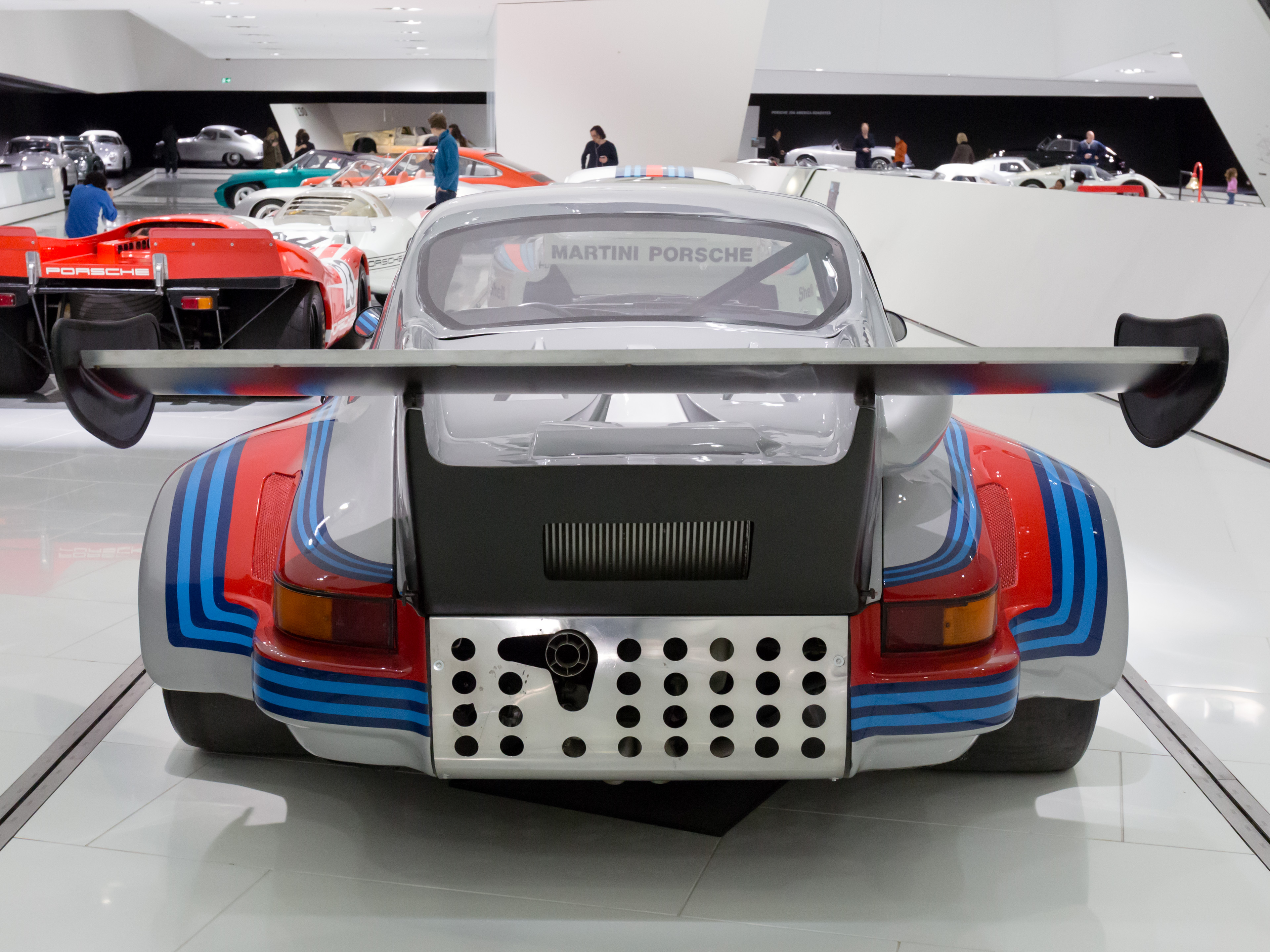 1974 Porsche Carrera RSR Turbo 2.1